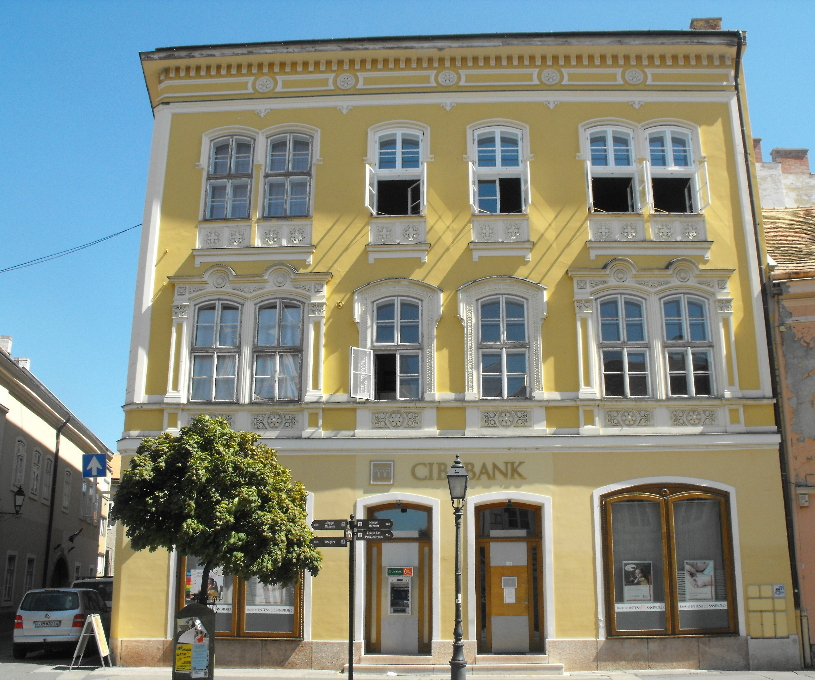 CIB Bank branch in Székesfehérvár, Hungary. Part of the so-called Gerchard House, a heritage monument building located in Basa street (this is the part facing Fő Street)